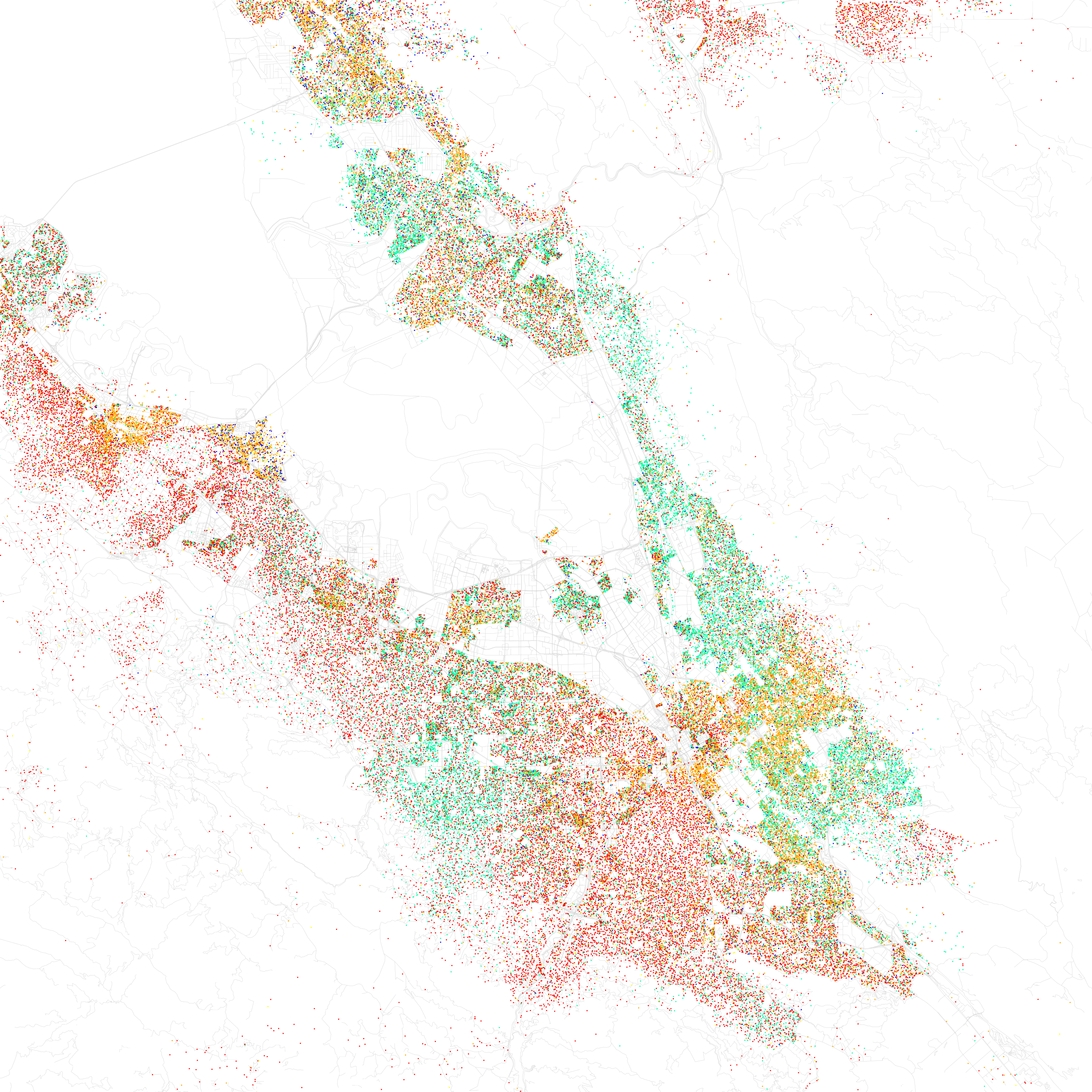 Maps of racial and ethnic divisions in US cities, inspired by Bill Rankin's map of Chicago, updated for Census 2010. Red is White, Blue is Black, Green is Asian, Orange is Hispanic, Yellow is Other, and each dot is 25 residents. Data from Census 2010. Base map © OpenStreetMap, CC-BY-SA